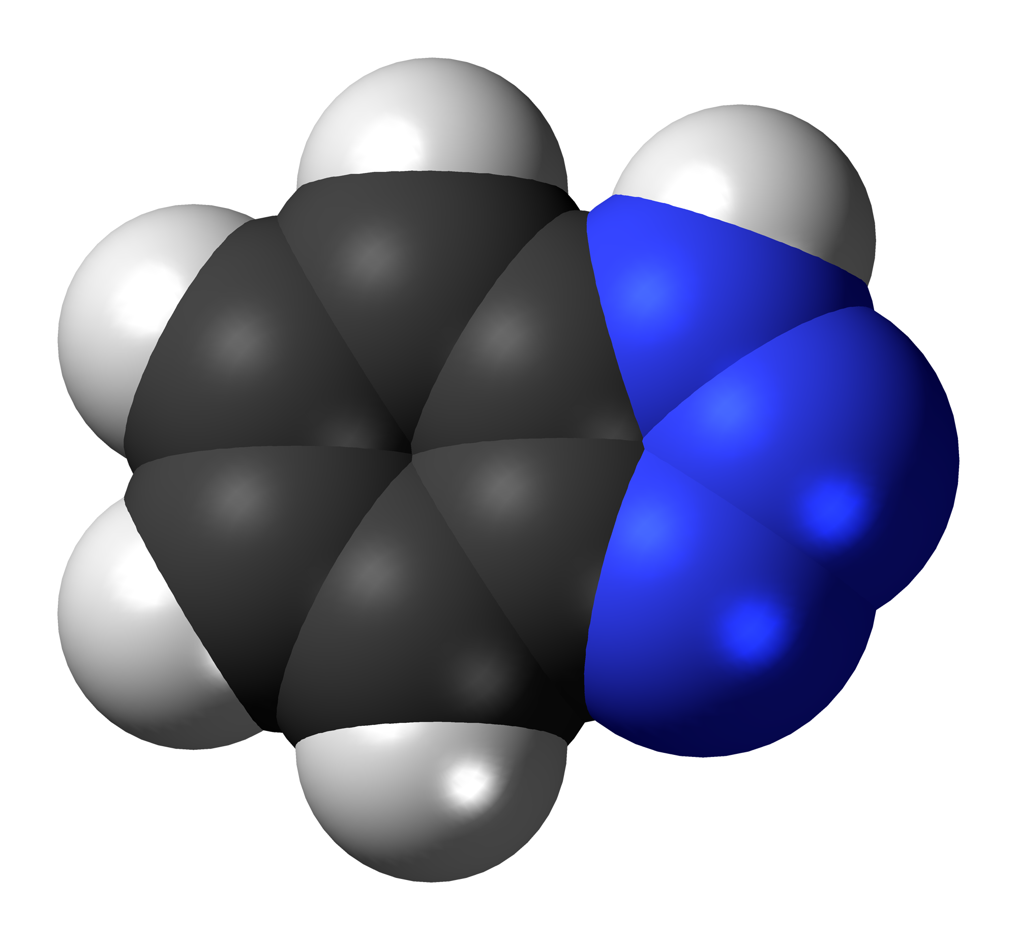 Space-filling model of the benzotriazole molecule, a heterocycle and a simple aromatic ring. Colour code: Carbon, C: black Hydrogen, H: white Nitrogen, N: blue